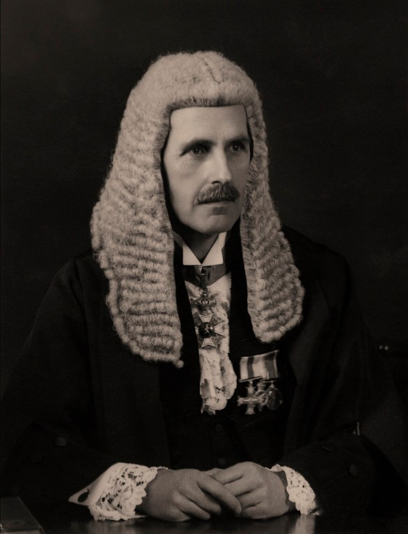 Captain The Right Honourable Sir Charles Norman Lockhart Stronge, Baronet, Justice of the Peace, recipient of the Military Cross